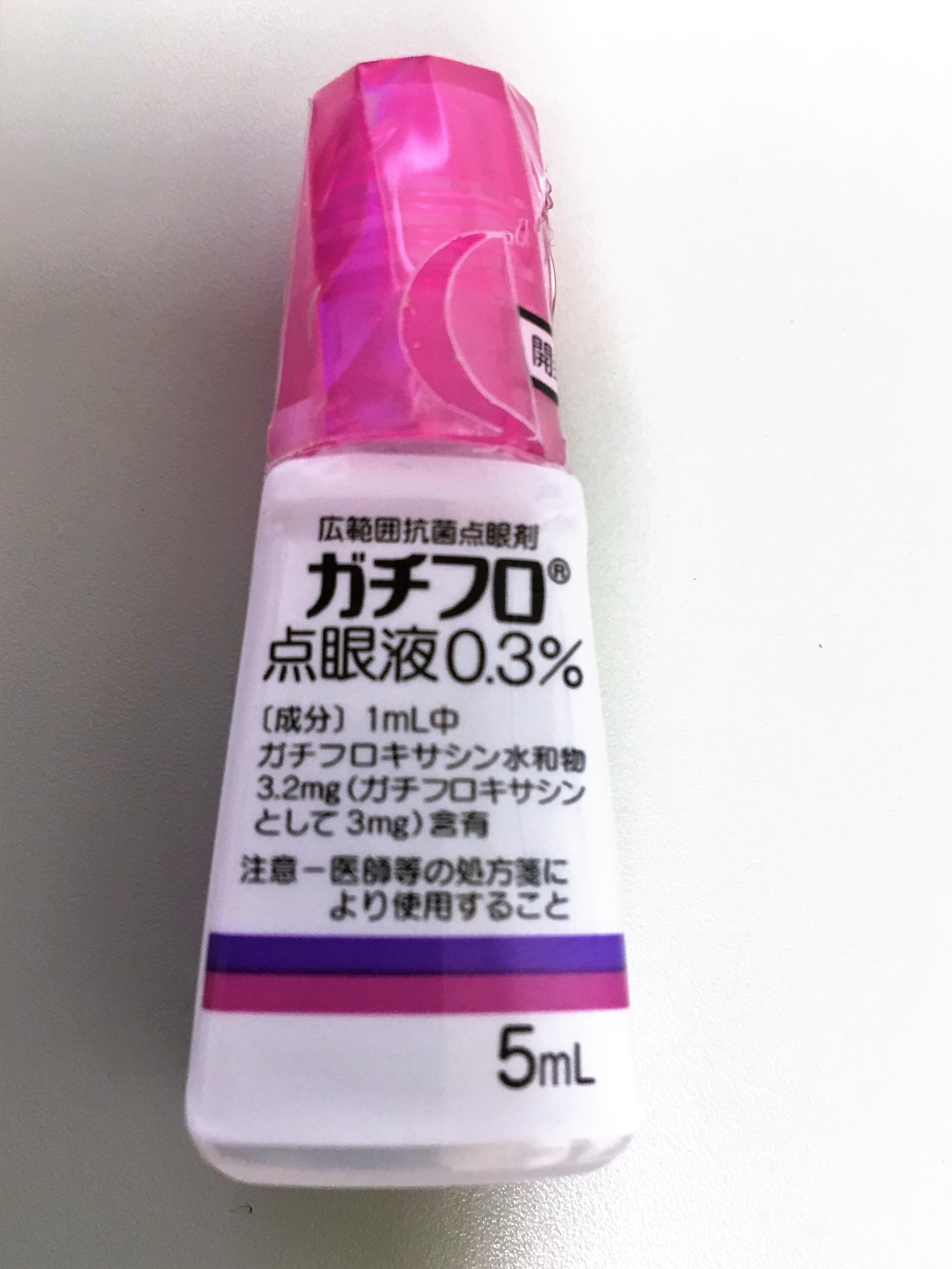 Gatifloxacin (eye drop)